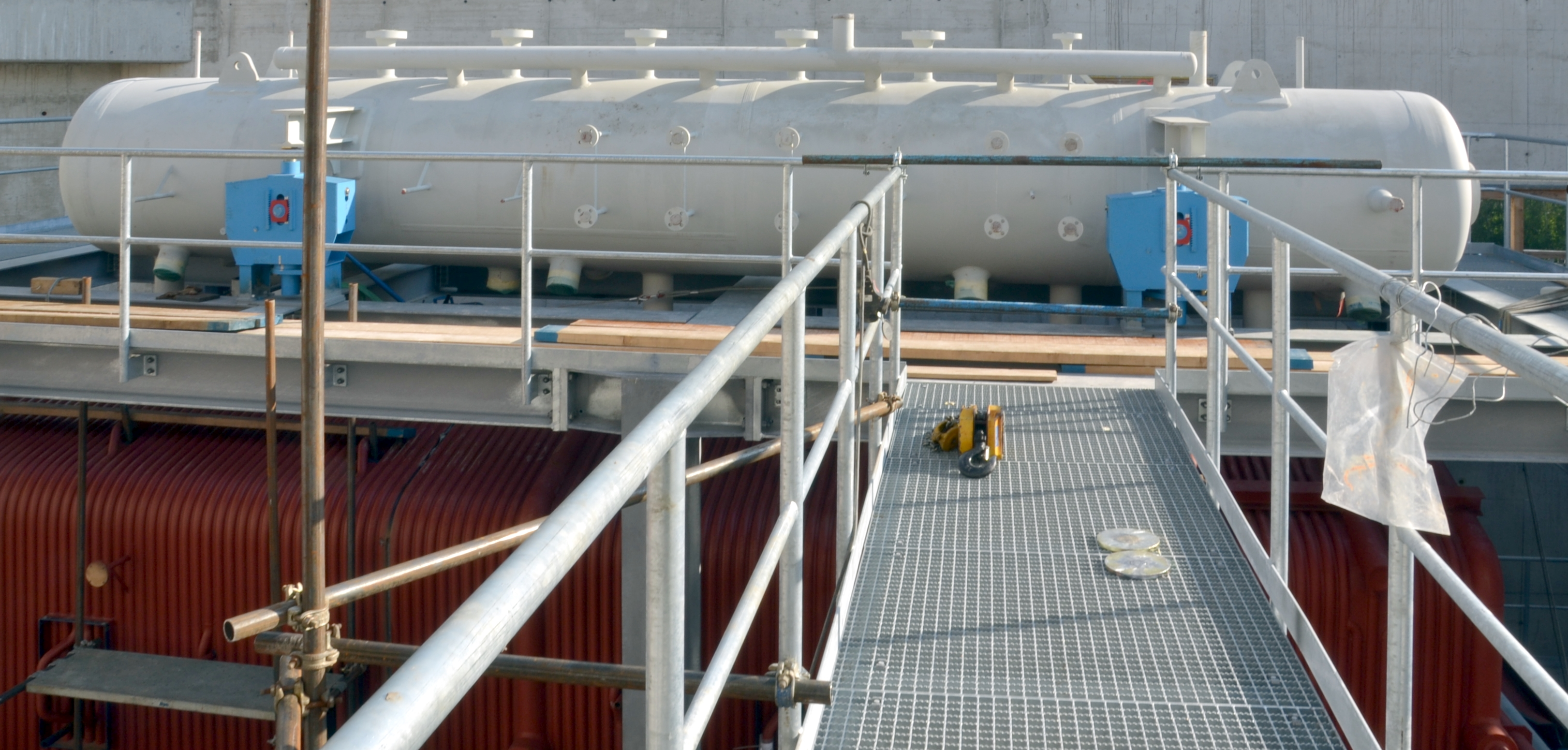 Steam vessel